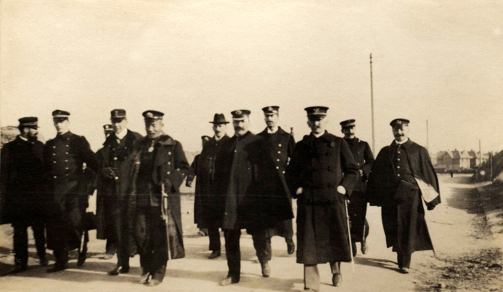 Admiral Yamamoto Gonnohyōe (also known as Yamamoto Gombei) visiting Dalny battlefield, photographed on January 4 1905 (the day after the Japanese conquested Port Arthur) by Admiral Ernesto Burzagli (1873-1944), Italian naval attaché in Tokio, who sailed from Yokohama (Japan) on a diplomatic mission to Port Arthur, during the Russo-Japanese War. The original picture, scanned by Emiliano Burzagli, belongs to the Private archive of Burzaghi family, Italy.